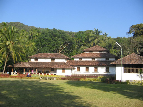 Photo taken by author himself